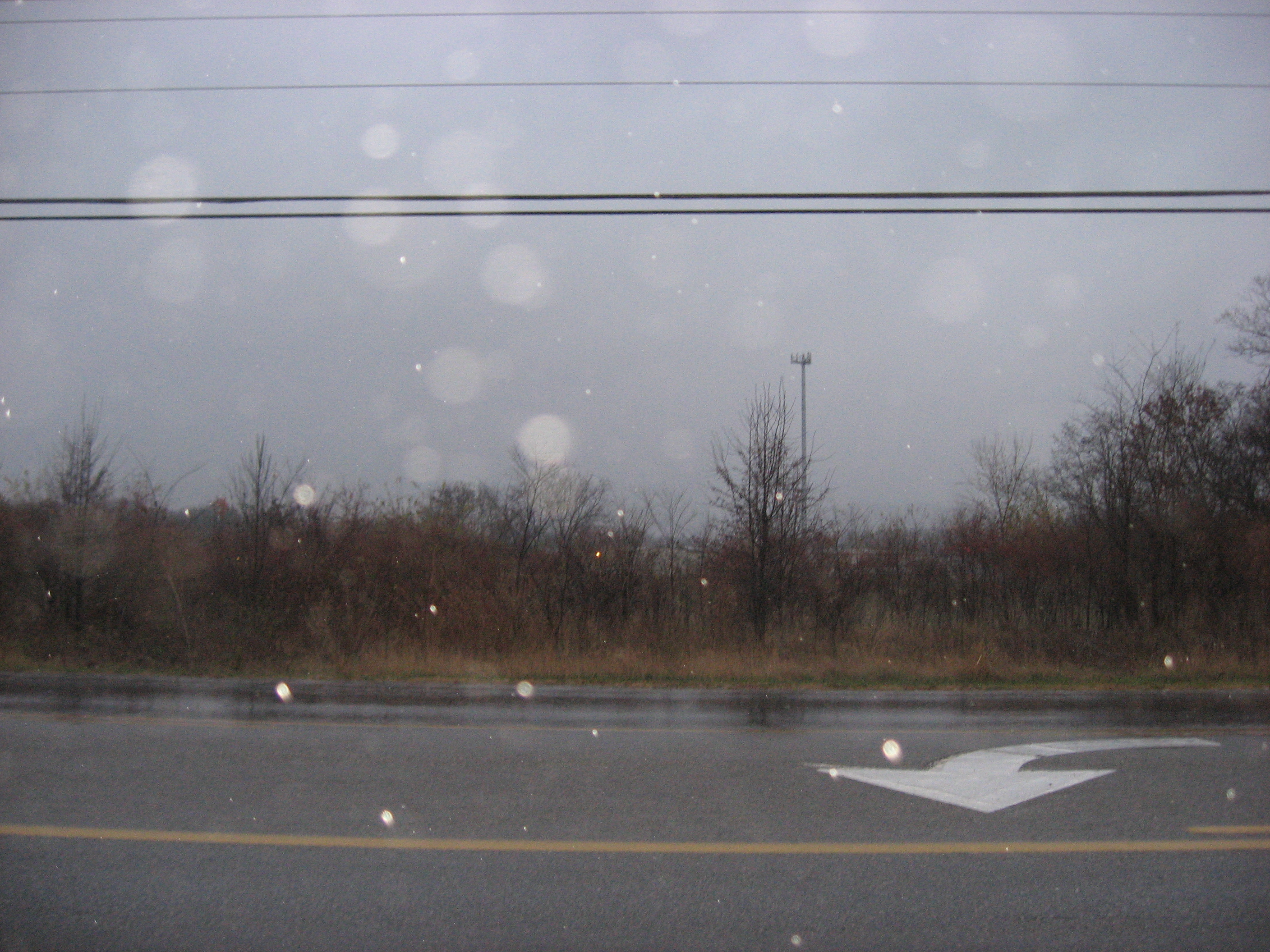 Site of the George Bennett House, located at 10281 Harrison Pike on the southeastern edge of the city of Harrison, Ohio, United States. Built in 1847, it is listed on the National Register of Historic Places, even though it has been destroyed.